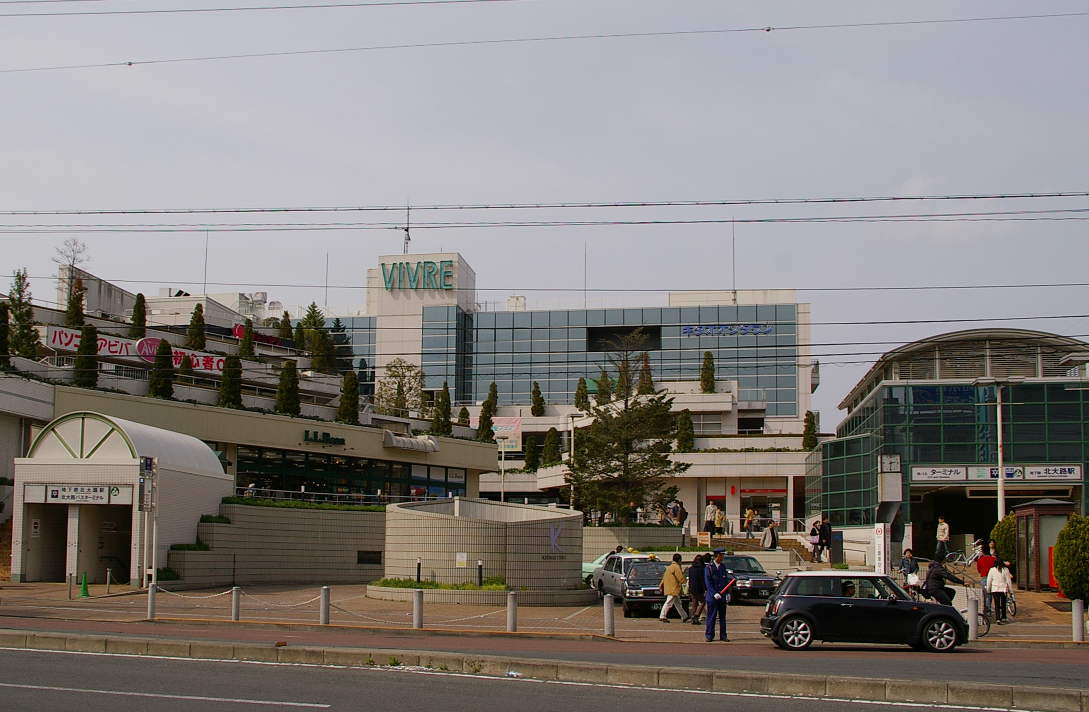 Photograph of Kitaoji Town in Kita Ward, Kyoto, Kyoto Prefecture, Japan. It is a complex facility of cultural hall, shops, bus terminal and subway station.